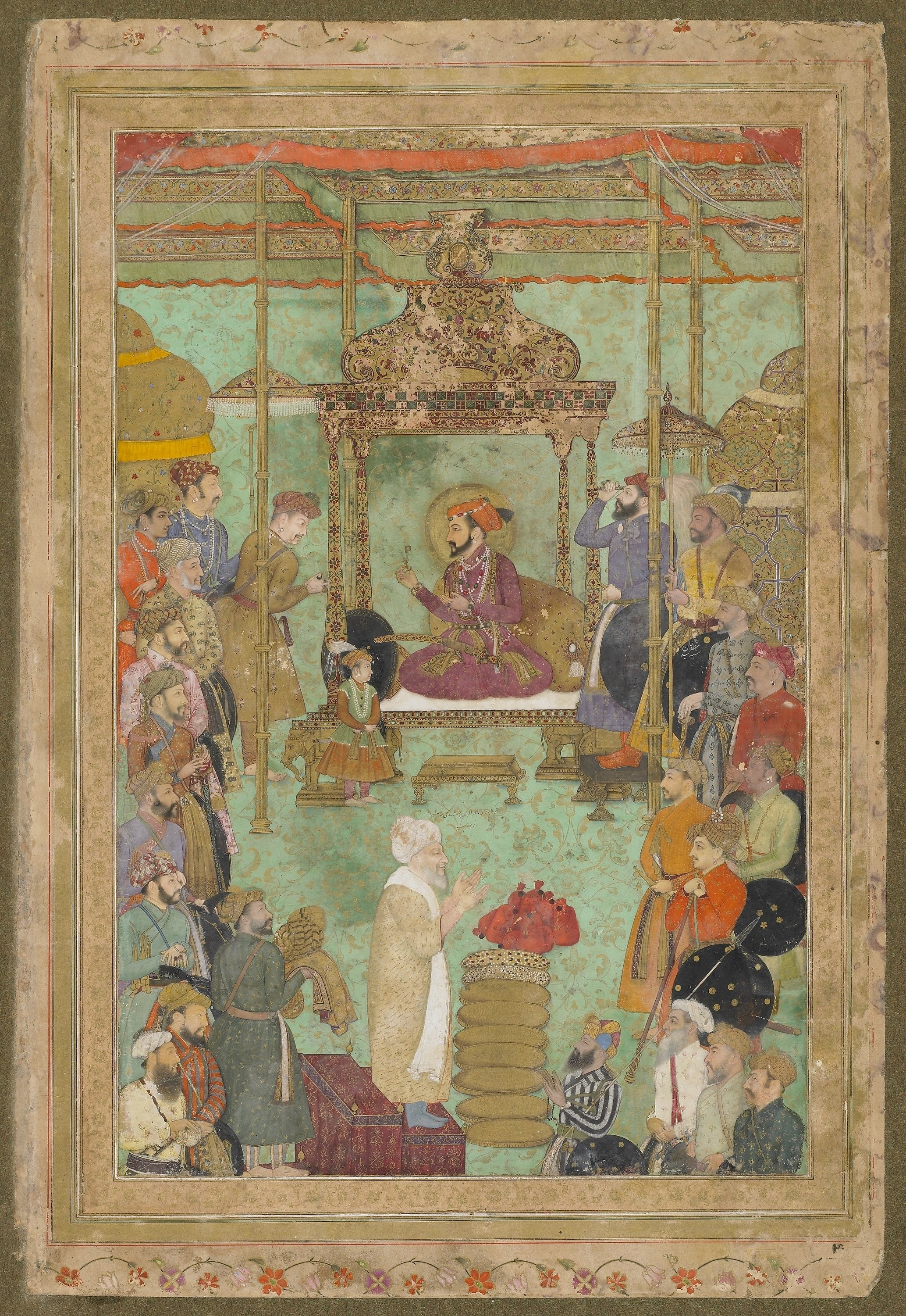 Shahjahan Enthroned with Mahabat Khan and a Shaykh, from the Late Shahjahan Album 1629-1630 'Abid , (India, India, active 1604 - 1645) Mughal dynasty Reign of Shah Jahan Opaque watercolor, ink and gold on paper, mounted on board H: 30.3 W: 20.0 cm India Purchase--Smithsonian Unrestricted Trust Funds, Smithsonian Collections Acquisition Program, and Dr. Arthur M. Sackler S1986.406